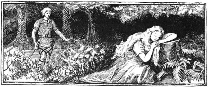 Near a wood, the goddess Sif rests her head on a stump while the half-deity Loki lurks behind, blade in hand. Loki holds the blade, presumably, to cut Sif's hair per the myth recounted in the Prose Edda book Skáldskaparmál.